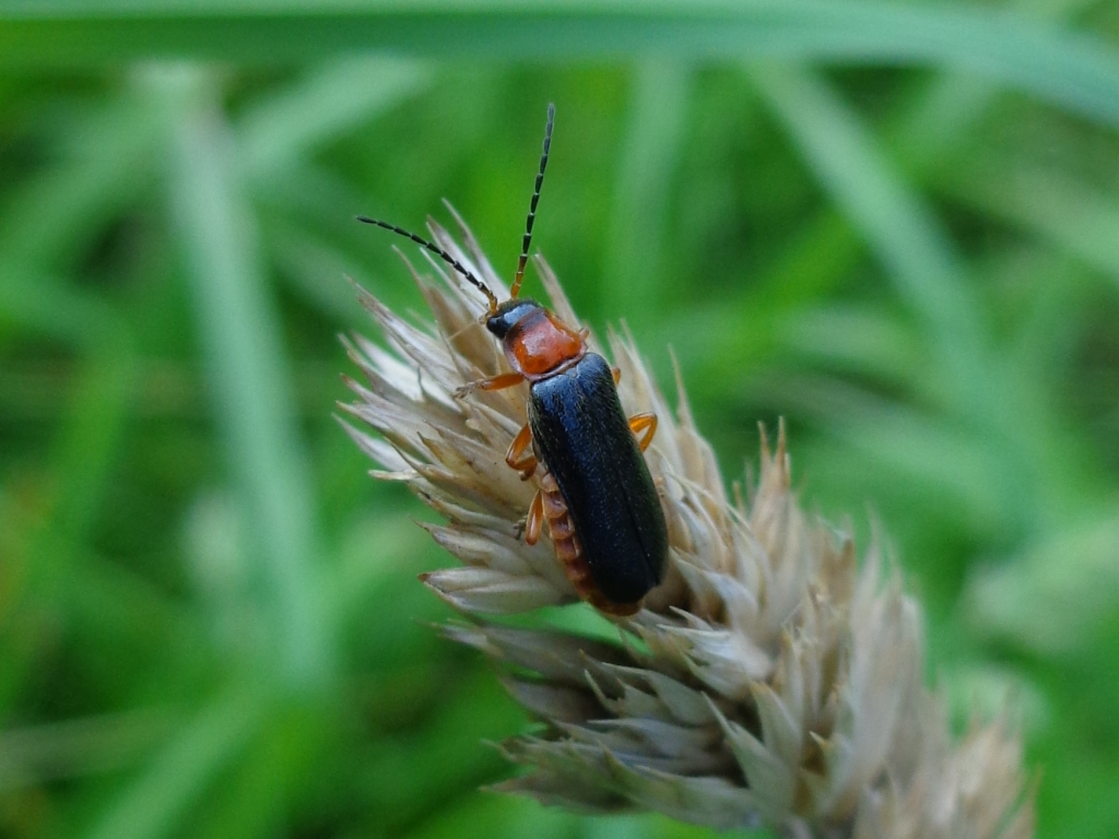 Cantharis flavilabris. Found in Dunte village near Saulkraste city, Latvia